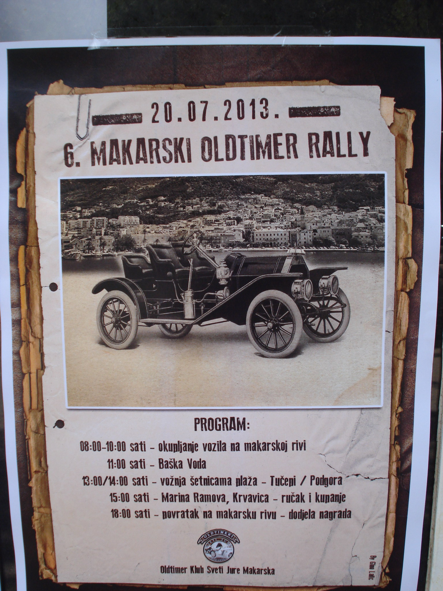 Poster advertising the 6th Oldtimer Rally in Makarska, CroatiaHrvatski: Plakat za 6. makarski oldtimer rally, Hrvatska